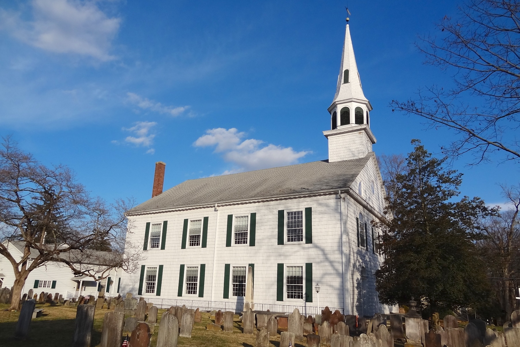 Hillsborough Reformed Church at Millstone, Somerset County, NJ. Built 1828.